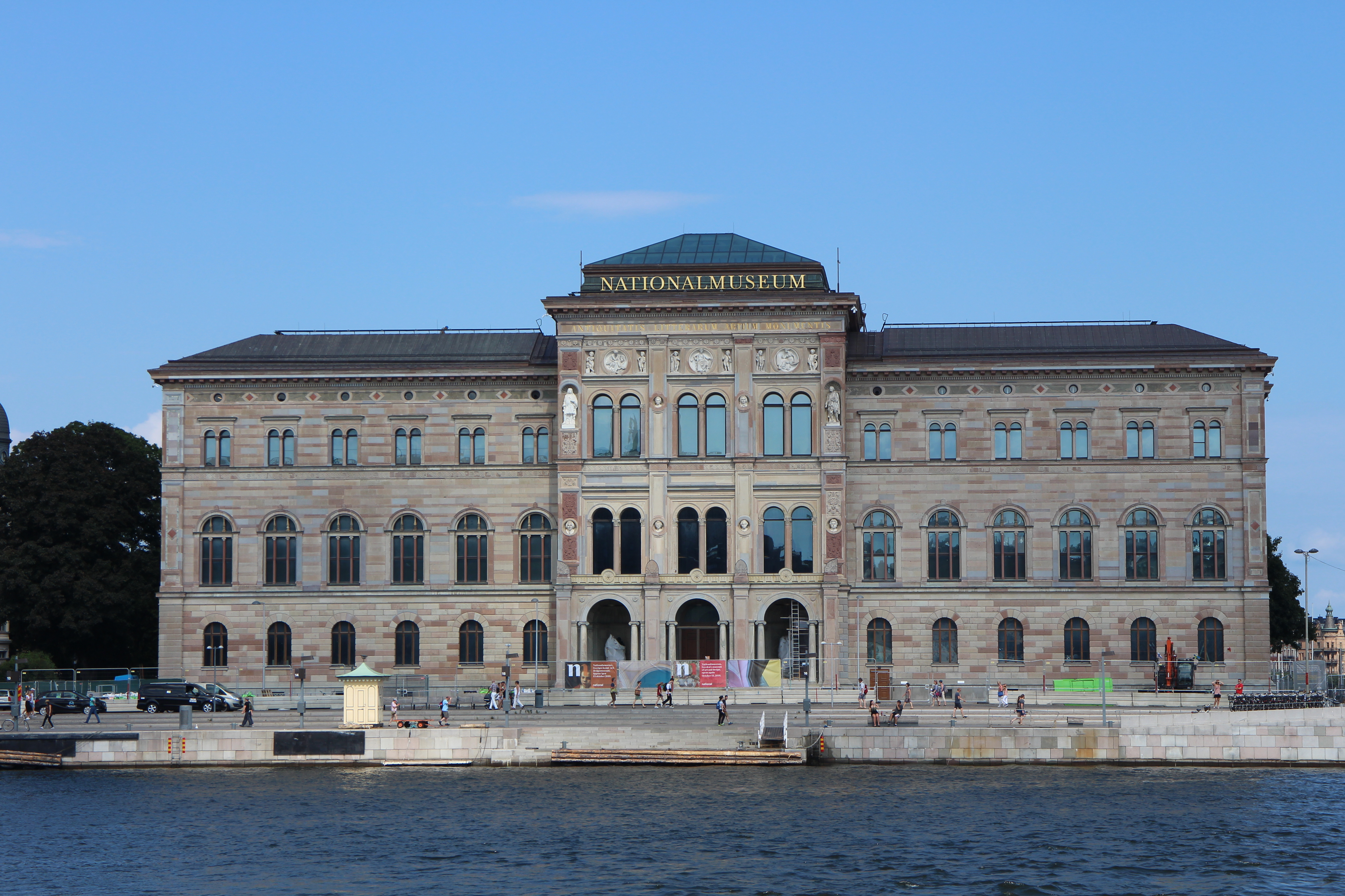 Nationalmuseum Stockholm - Building